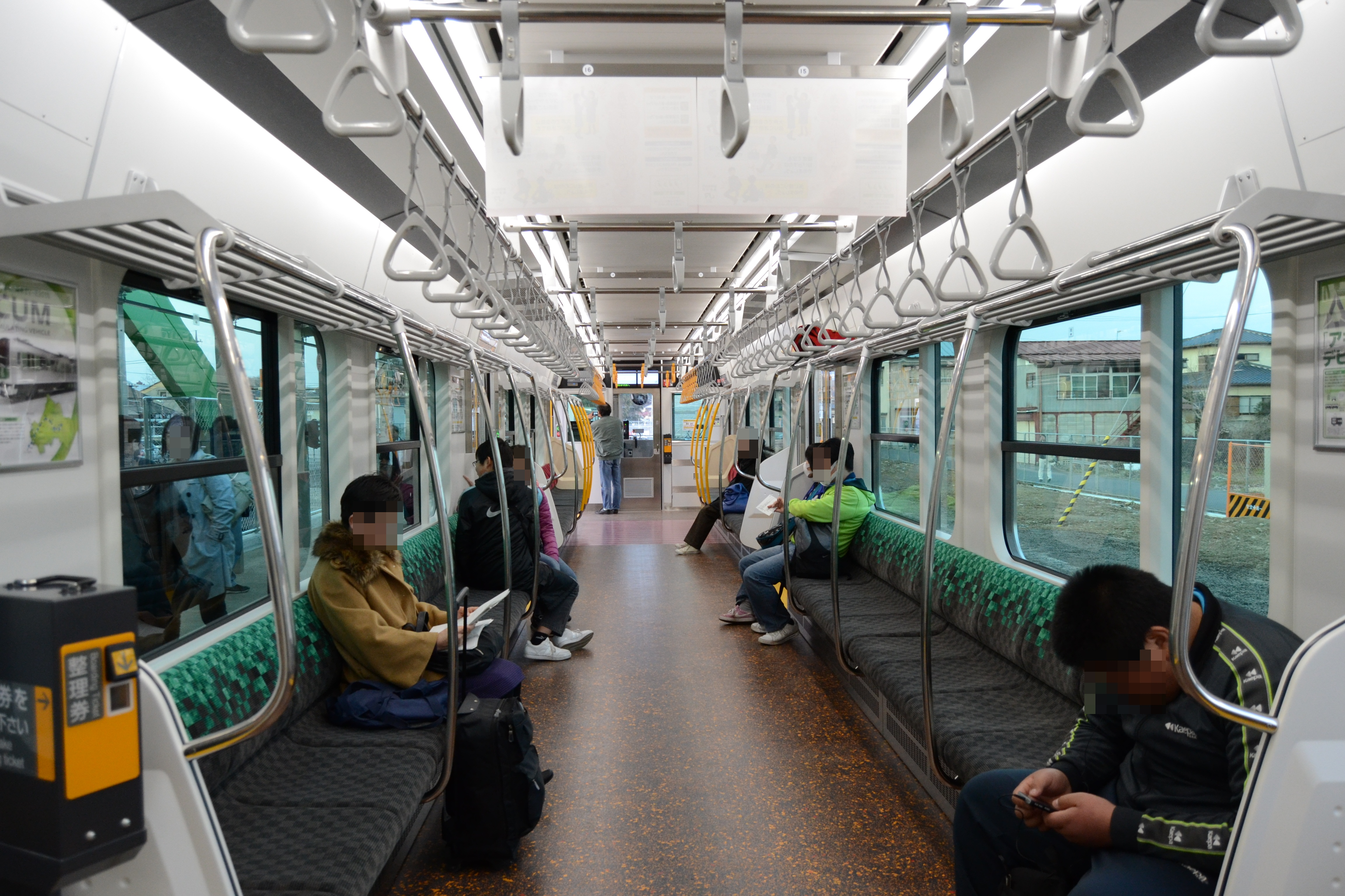 Interior of JR East EV-E301 series EMU car EV-E301-1